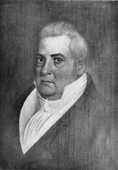 William Garrard, son of Kentucky Governor James Garrard